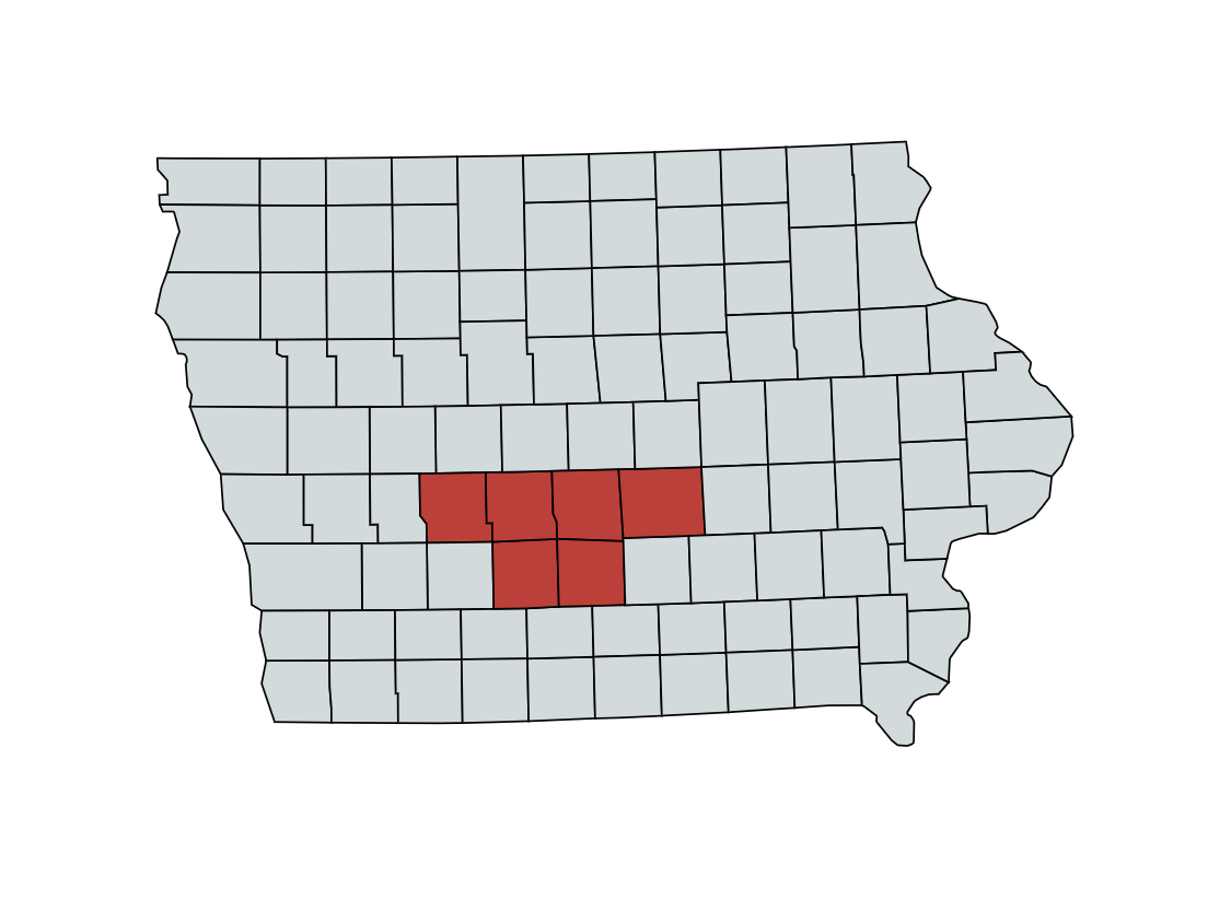 An updated map of the Des Moines metro with the proper counties of; Guthrie, Dallas, Polk, Jasper, Madison, and Warren